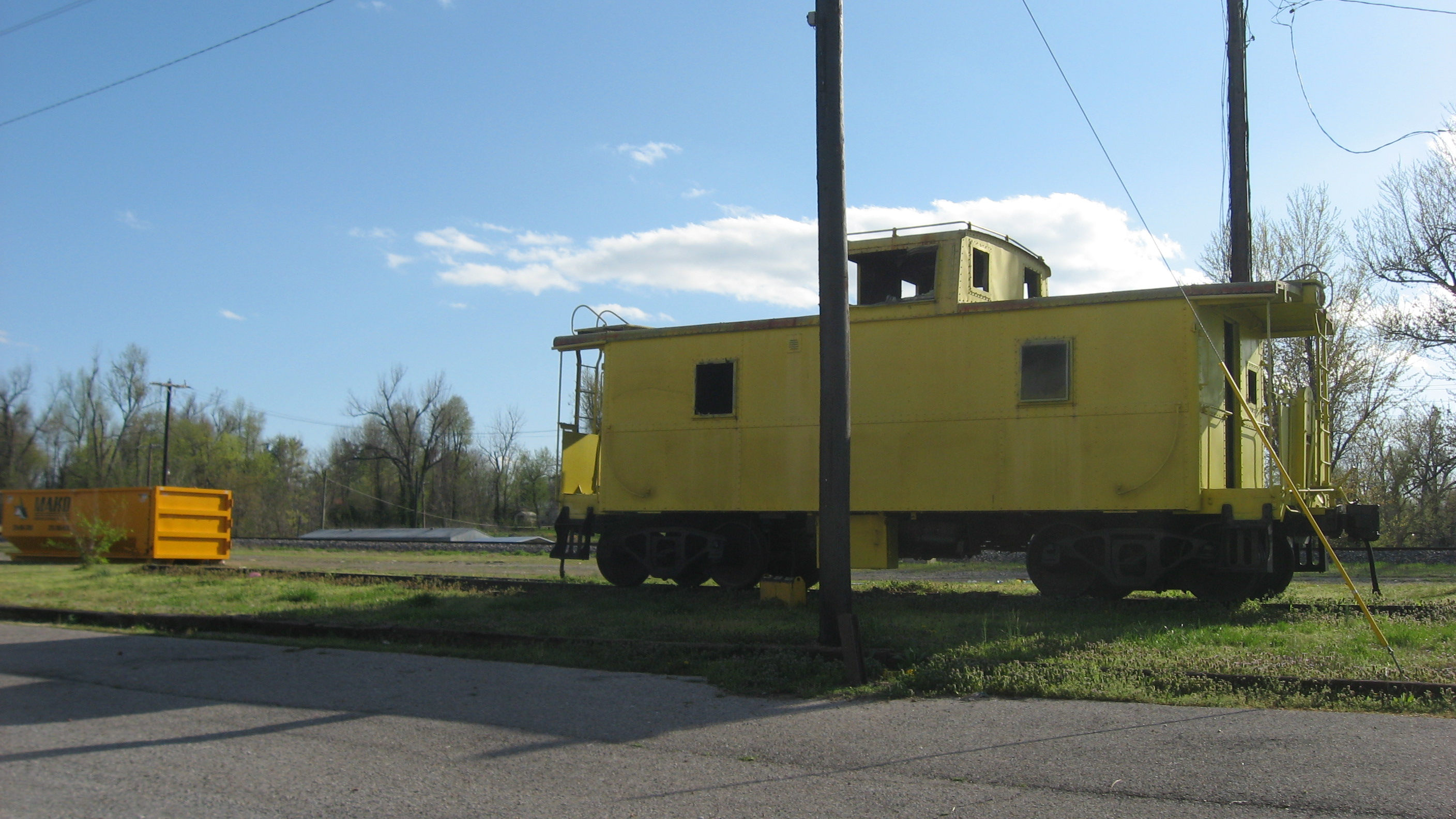 Former Illinois Central caboose by the former depot in downtown Bardwell, Kentucky, United States.